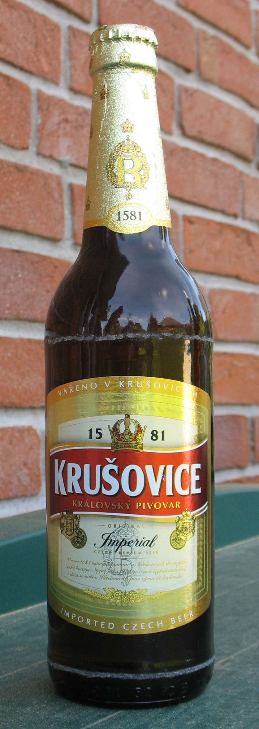 A beer bottle of Krusovice beer